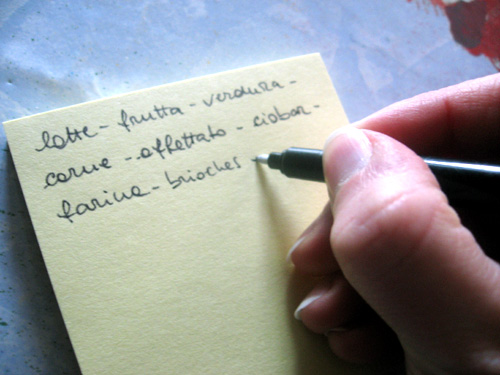 An Italian shopping list for groceries.